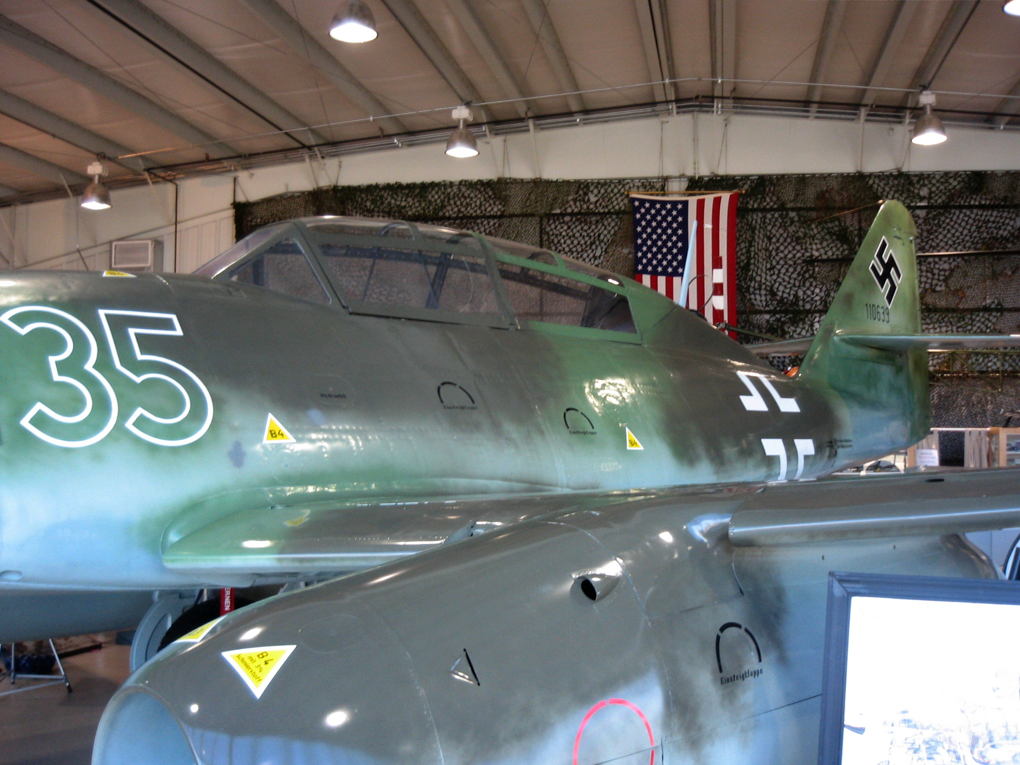 Messerschmitt Me 262 B-1a at the Wings of Freedom Aviation Museum at NAS JRB Willow Grove.